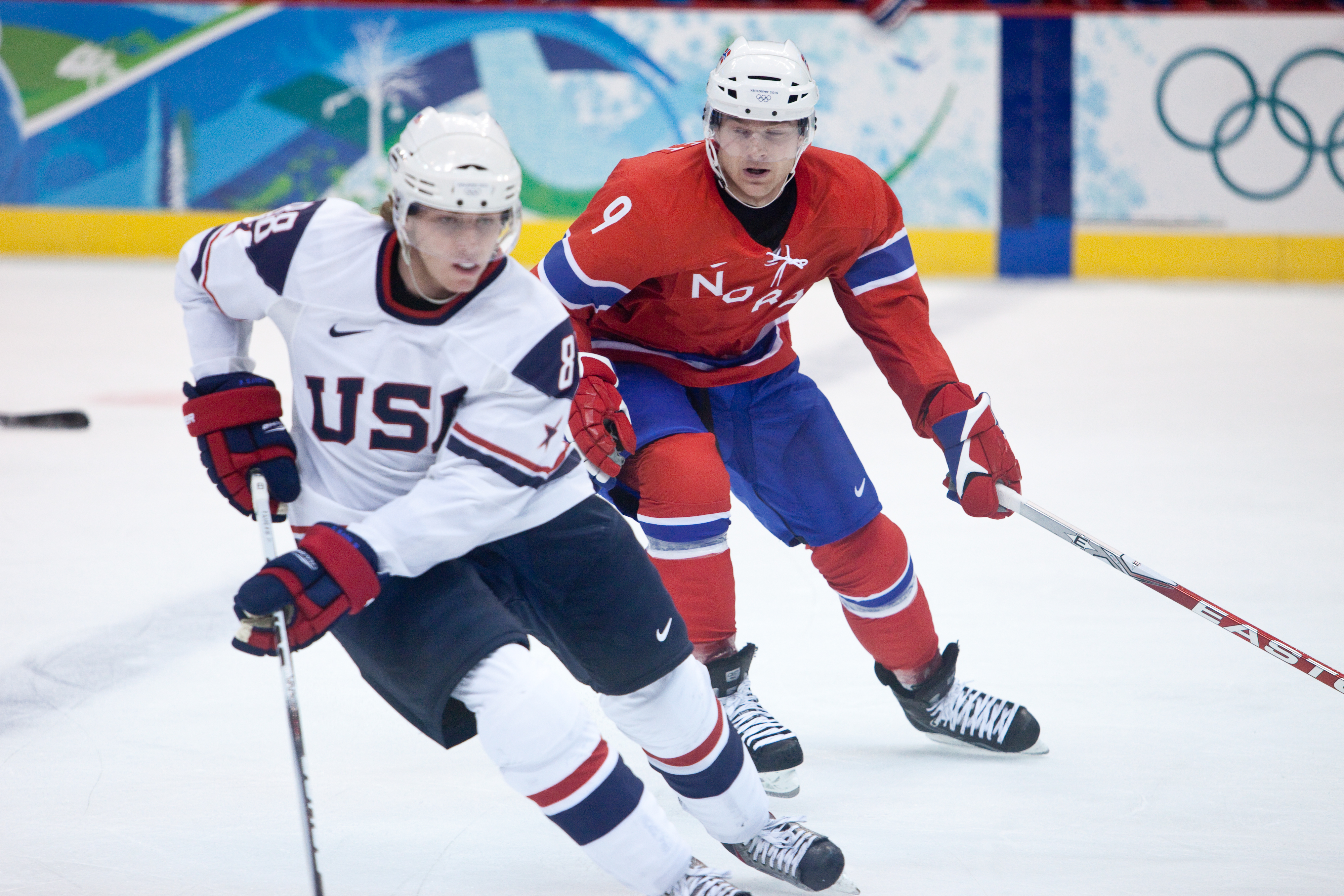 Marius Holtet of Norway and Patrick Kane of the United States during the 2010 Winter Olympics